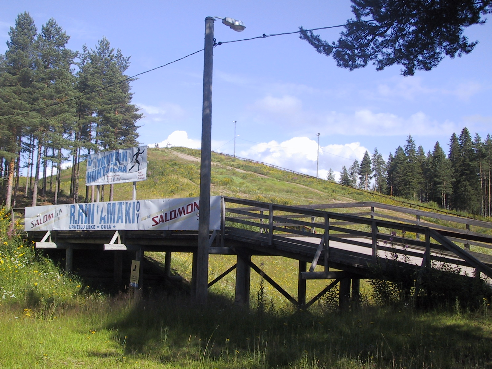 Köykkyri a ski resort, in Kempele Finland.